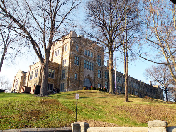 Picture of Langley High School located at Sheraden Boulevard and Chartiers Avenue in the Sheraden neighborhood of Pittsburgh, Pennsylvania, on December 4, 2009. The school was built circa 1900, with additions in 1929, and is listed on the National Register of Historic Places. Architects: MacClure & Spahr. Architectural style: Tudor Revival.